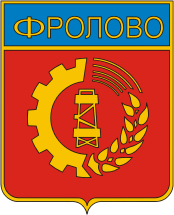 Frolovo (Volgograd oblast), coat of arms (1988)